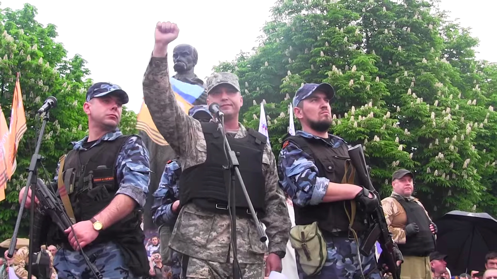 Valery Bolotov proclaims the Act of Independence of the Lugansk People’s Republic, May 12, 2014, 18:15:51 MSK.